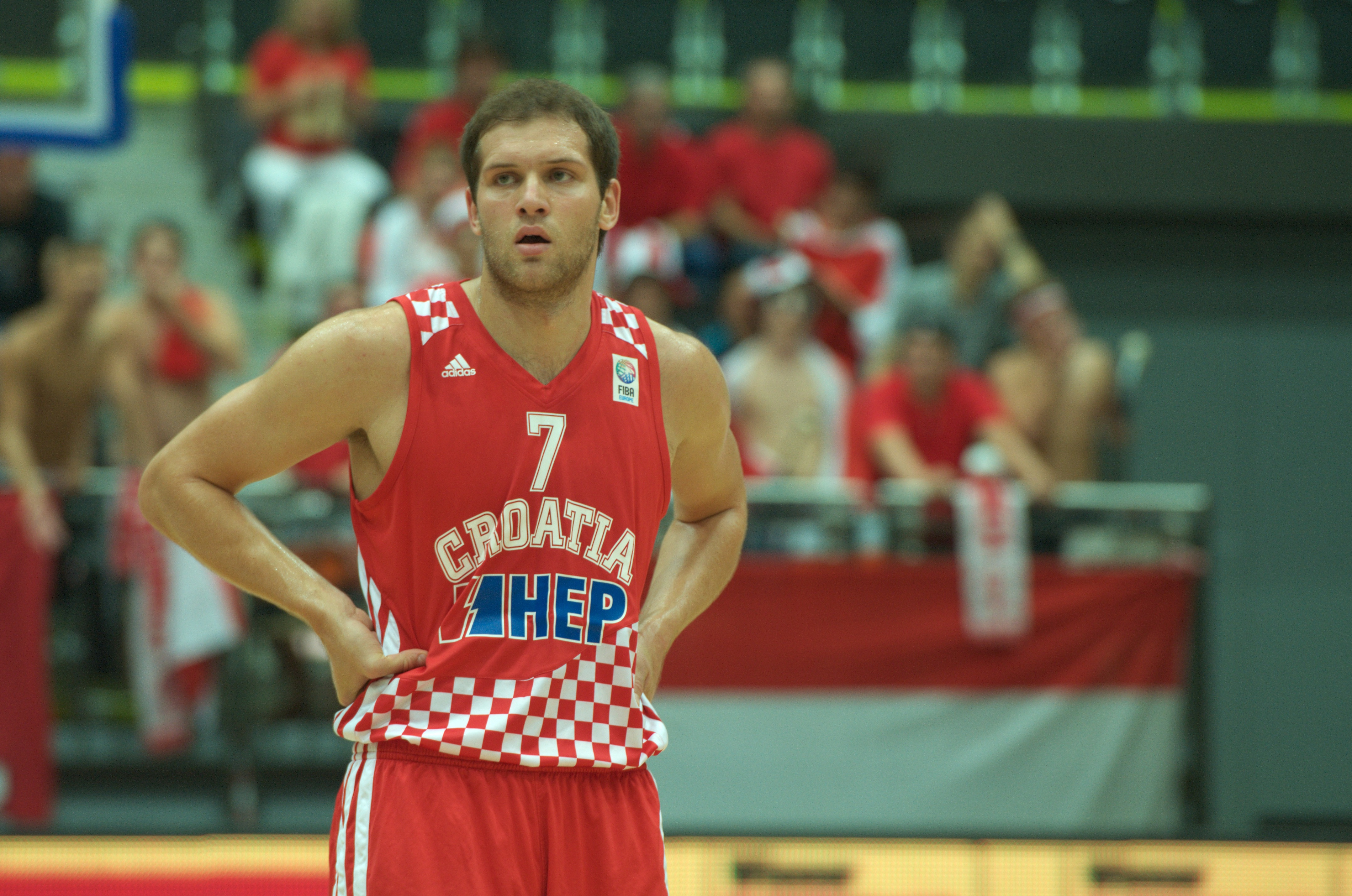 Bojan Bogdanović playing for Croatia in 2012.